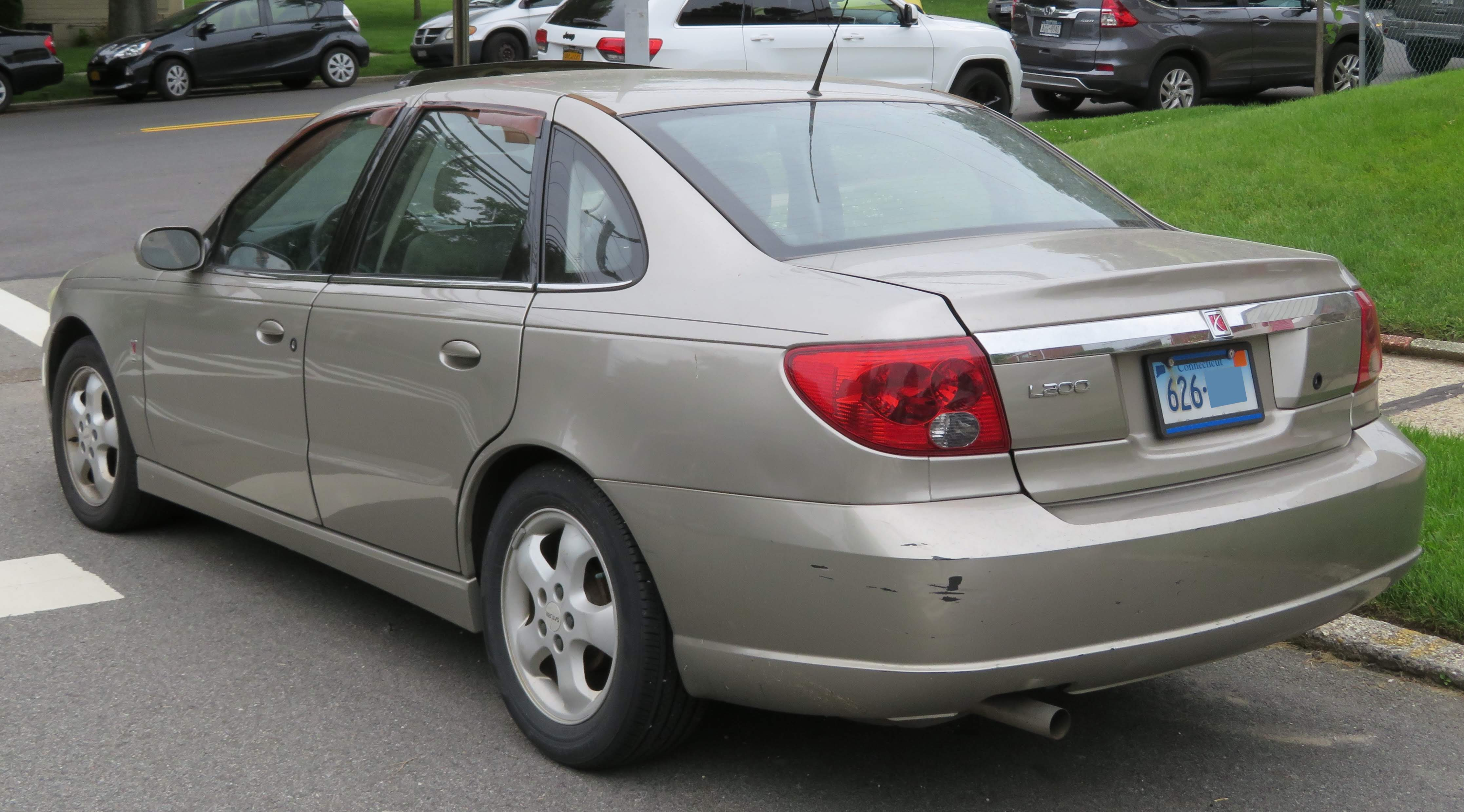 Photographed in Queens, New York